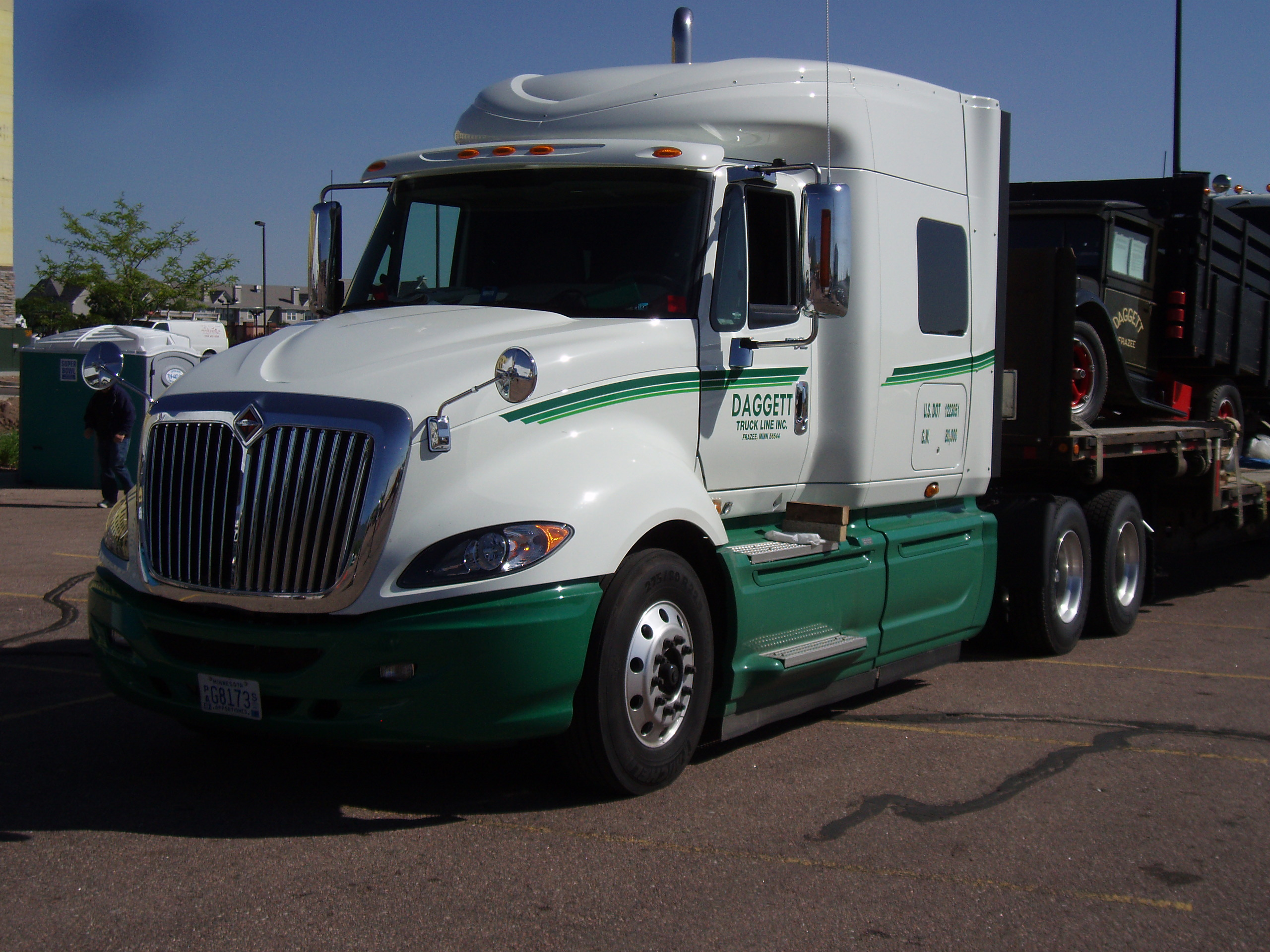 International ProStar class 8 truck manufactured by Navistar